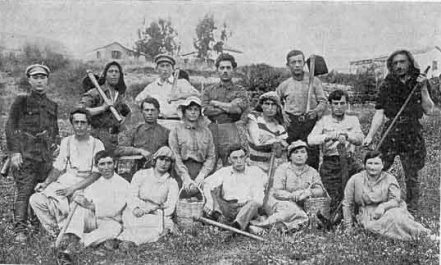 Brevda, pictured in the back row third from the right, and other early Zionist pioneers on the Degania Kibbutz in the Galilee region of Israel before the declaration of statehood.